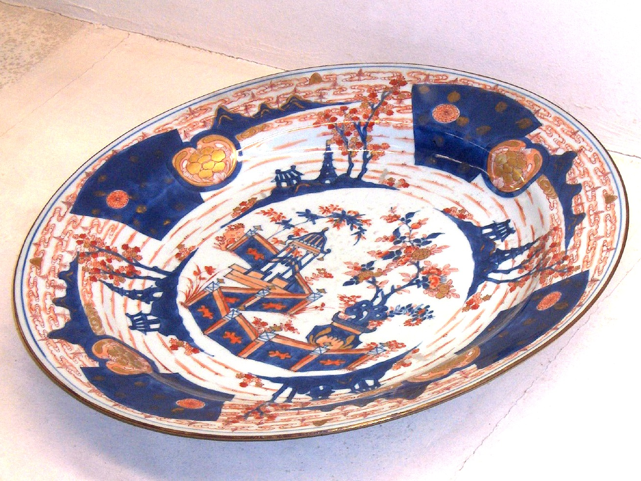 Kitchen; collection of Chinese porcelain from the blue-and-white collection : Chinese Imari dish; Qing Dynasty, 1700-1725.; Topkapı Palace, Istanbul, Turkey